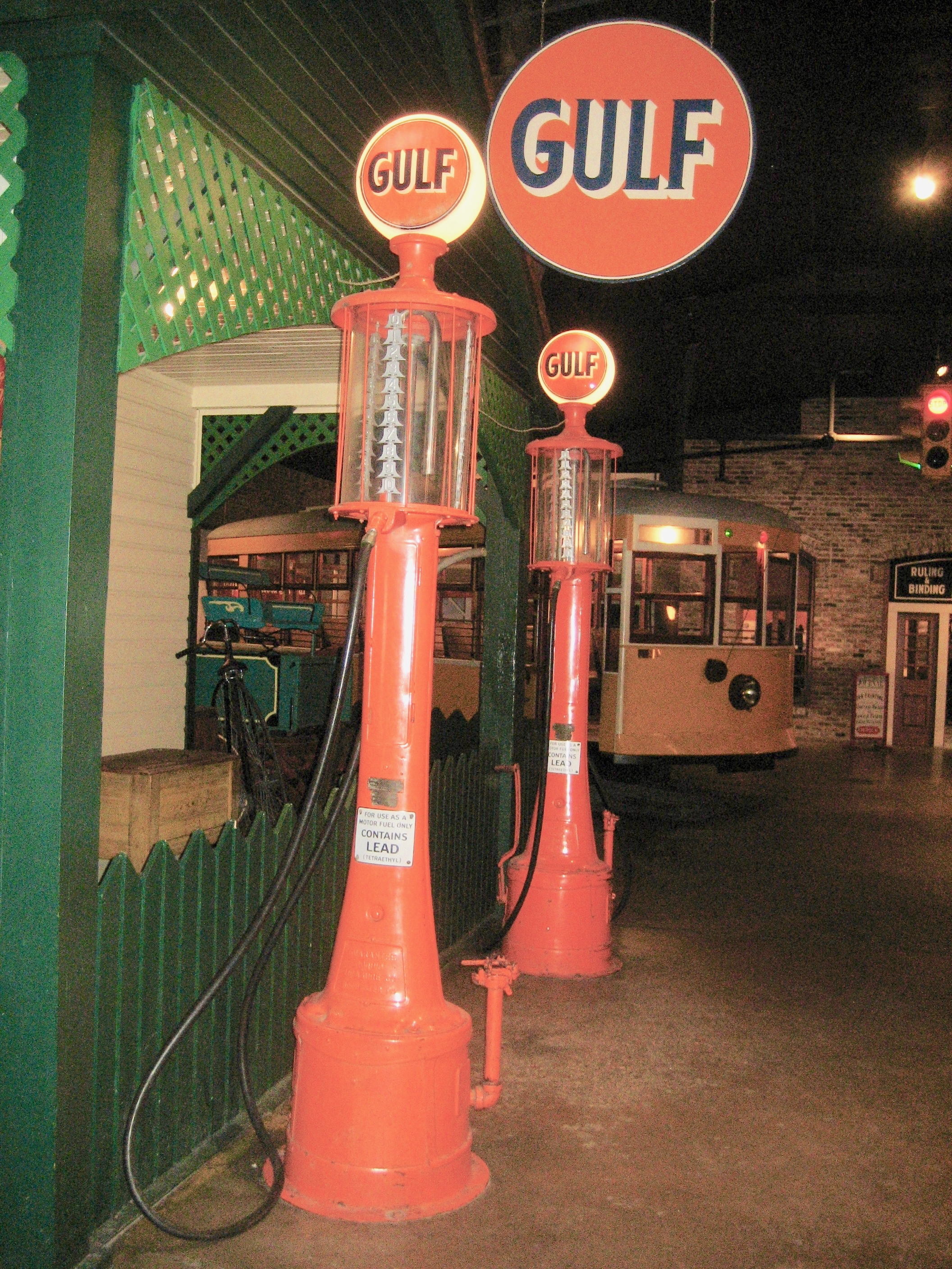 Museum of Commerce, Pensacola. Display with gas pumps of first third of 20th century.